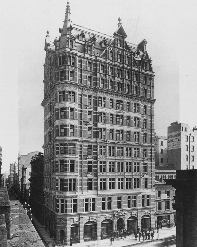 The APA (Australian) Building on Elizabeth Street in Melbourne, Victoria, Australia, circa approx 1900. The building was torn down in 1980.